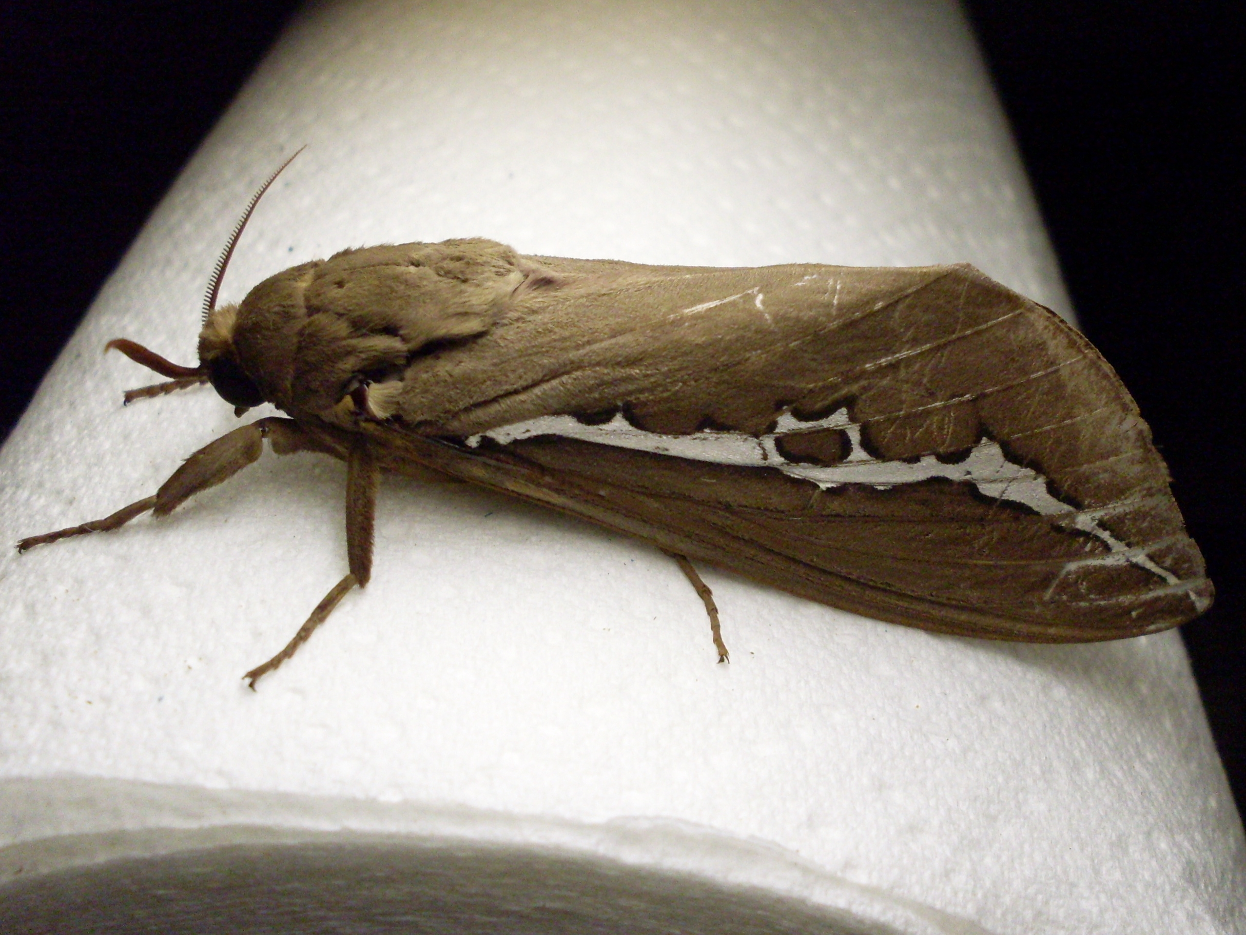 Sitting on a roll of paper towel this moth (Abantiades barcas) is nearly 10 cm long. Wollemi National Park, Newnes, NSW Australia, March 2009.